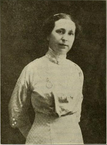 "THE WOMAN CITIZEN" Alice Stebbins Wells Los Angeles policewoman Purity League of Los Angeles co-founder